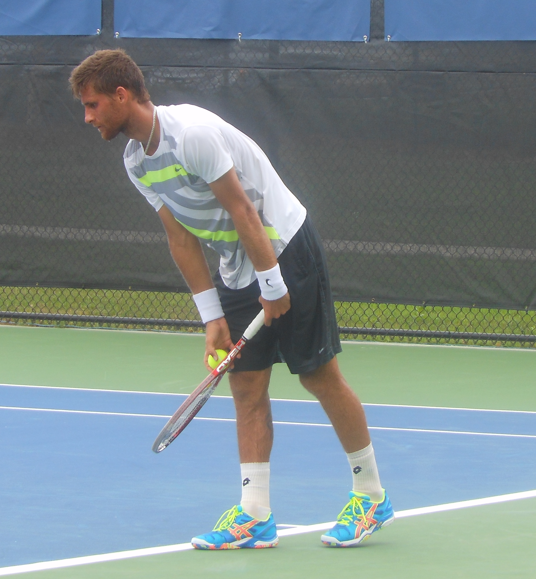 Martin Klizan 2014 Winston Salem Open